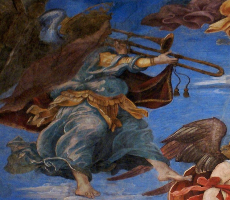 Detail of trombone-playing angel from the Assumption of the Virgin Mary in the Santa Maria sopra Minerva's Cappella Carafa